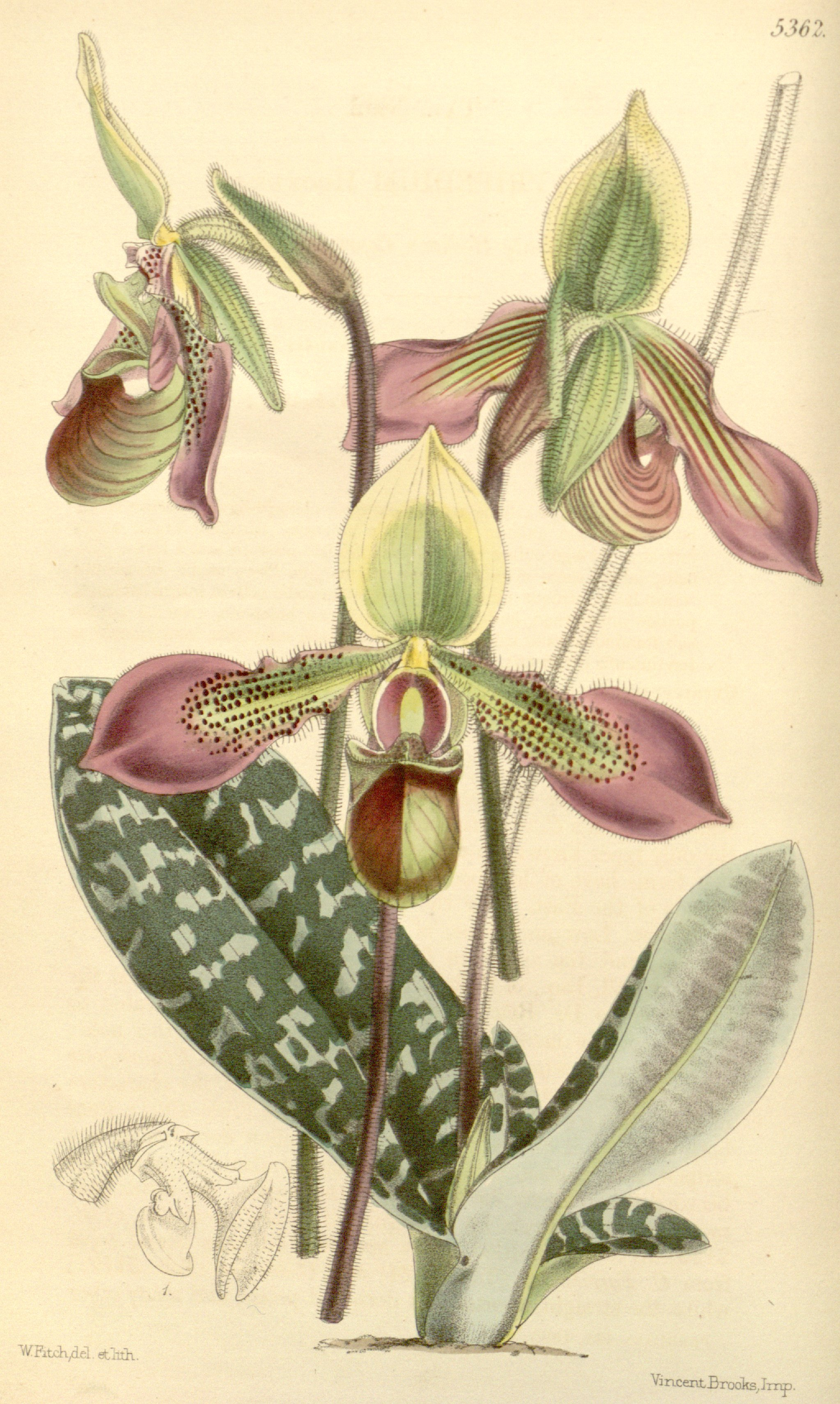 Illustration of Paphiopedilum hookerae (as syn. Cypripedium hookerae)